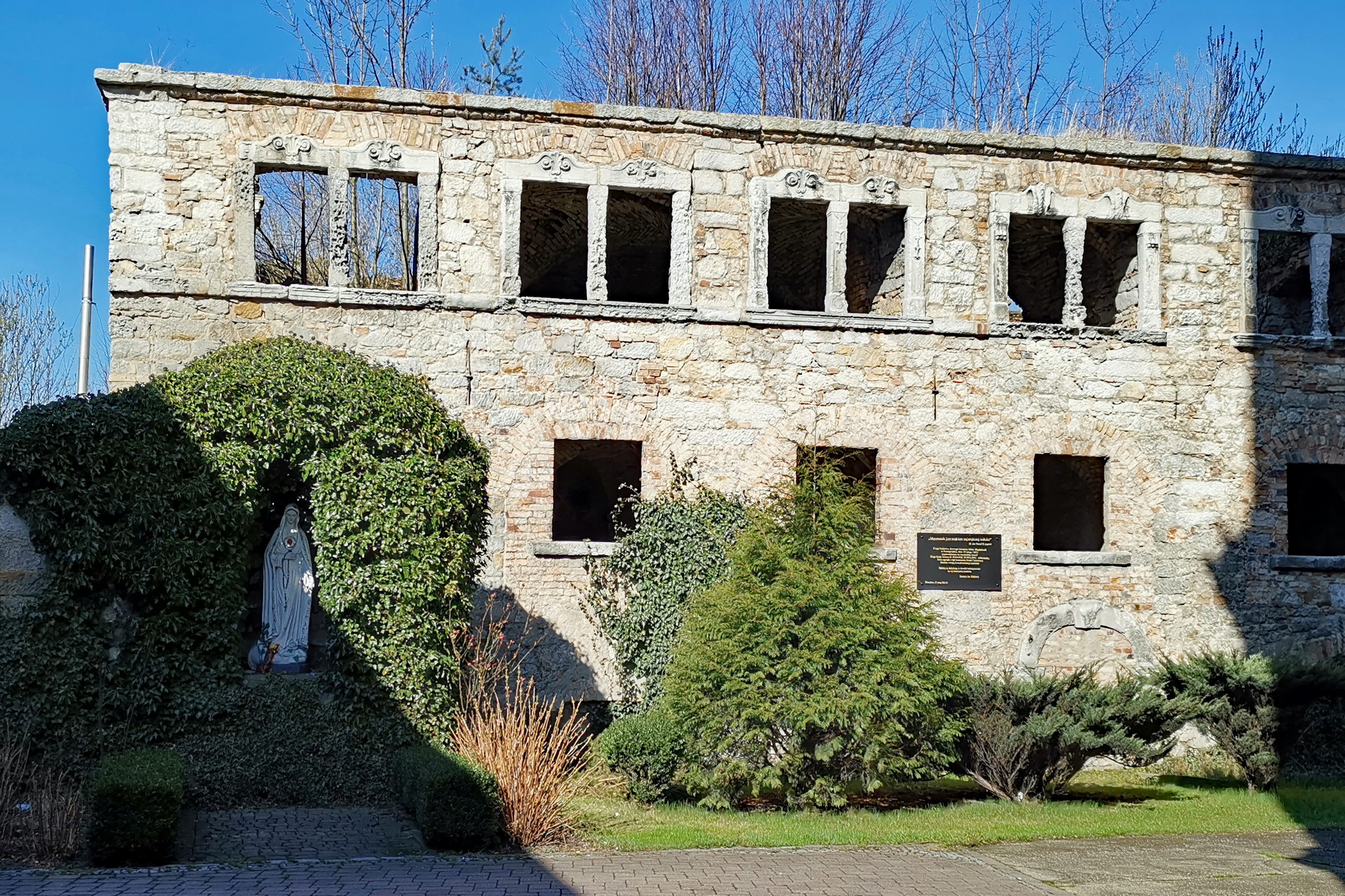 Nowogrodziec (Lower Silesian Voivodeship, Poland)